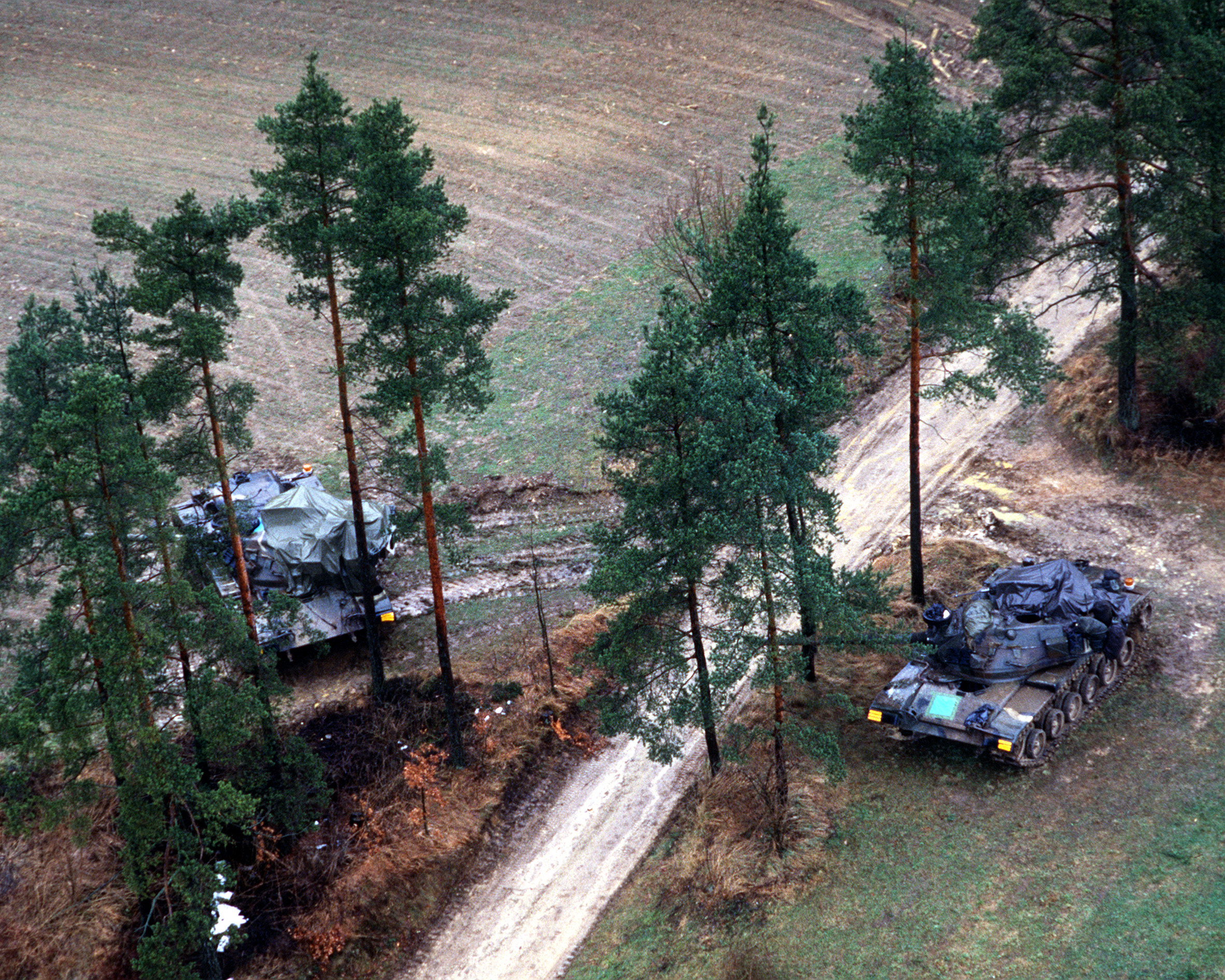 An aerial view of two M60A1 main battle tanks maneuvering through the trees during Exercise REFORGER '86 in West Germany.